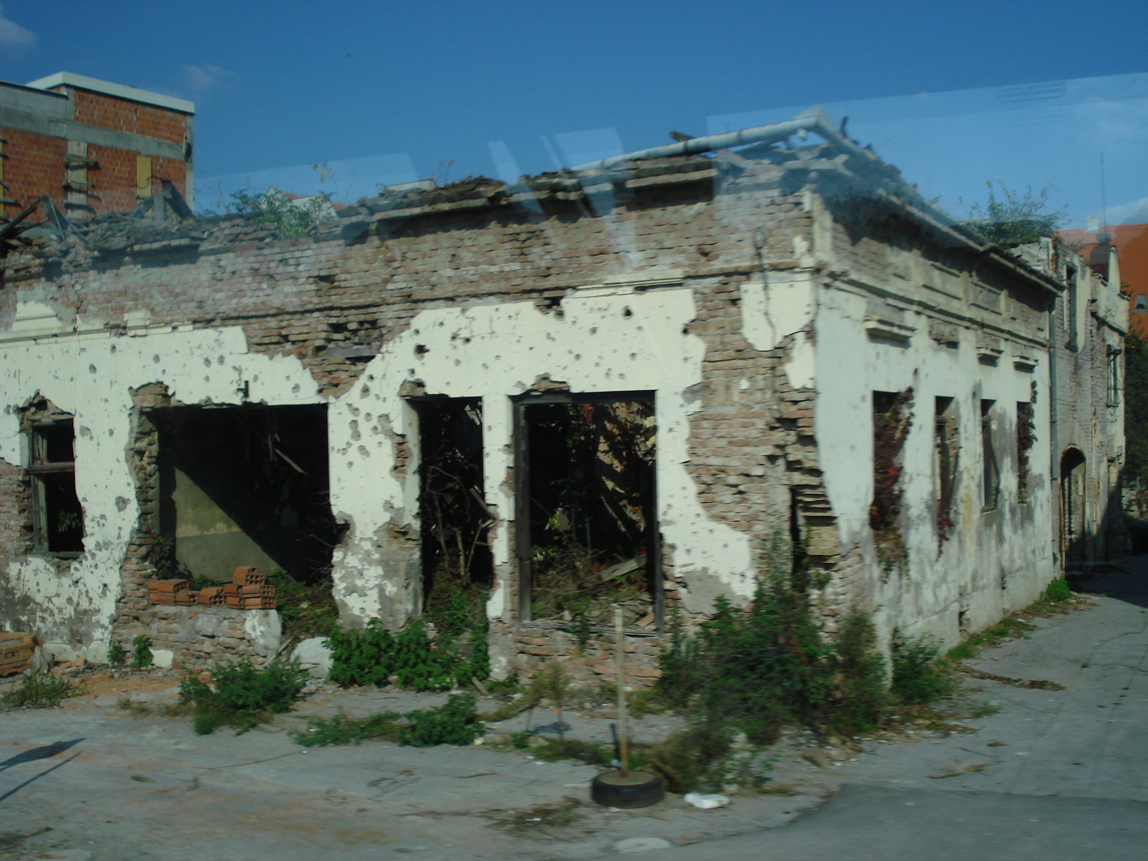 Destroyed house in Vukovar after the Croatian War of Independance (1991-1995).